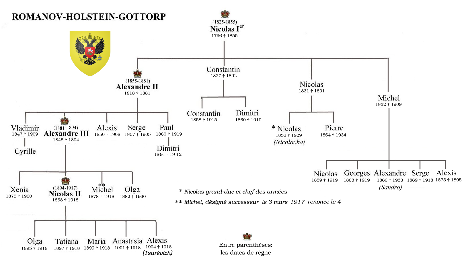 Genealogy summarized the Romanov-Holstein-Gottorp house therefore Nicholas I until Nicholas II of Russia